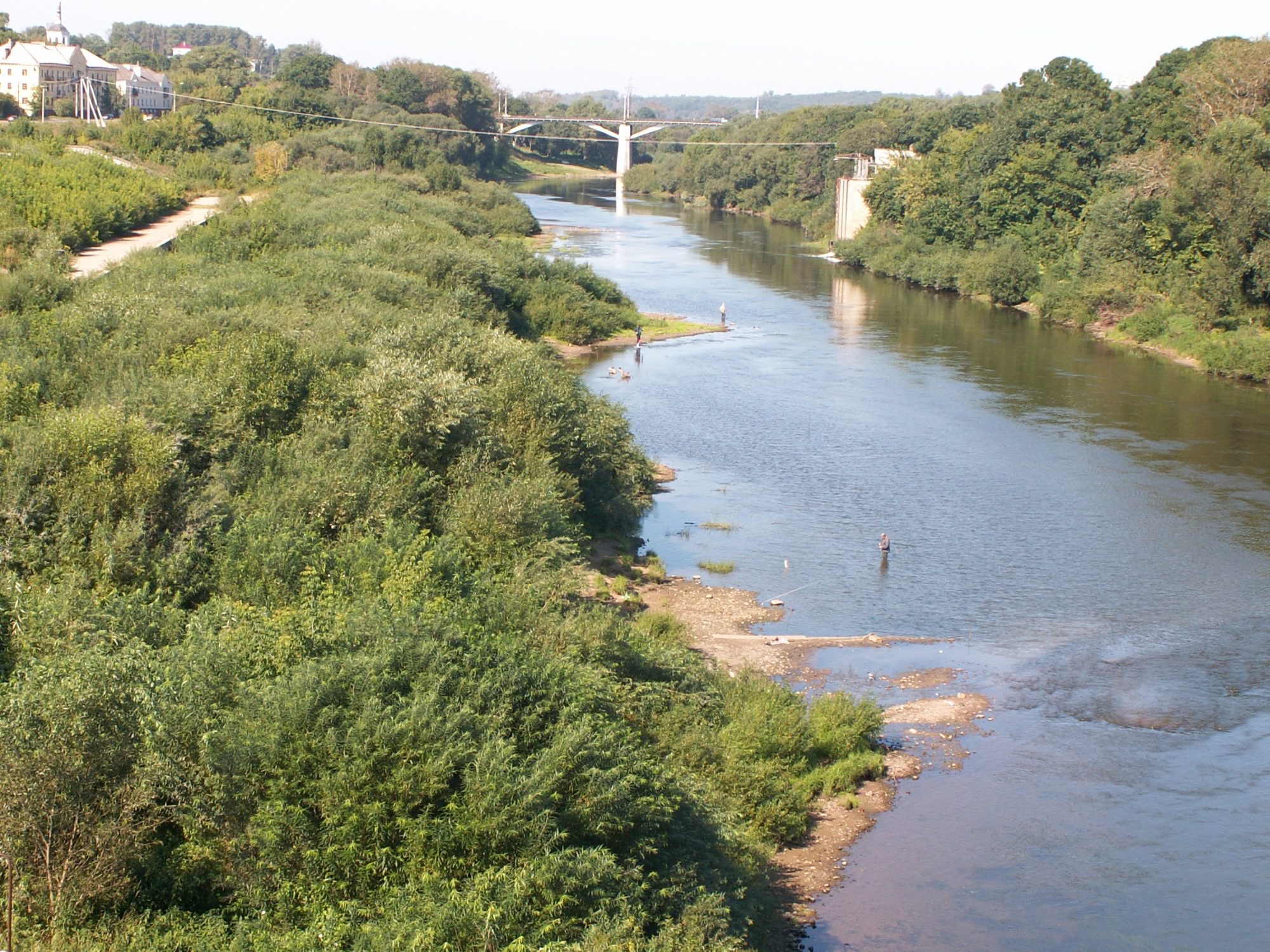 Dnieper river in Smolensk (2005)